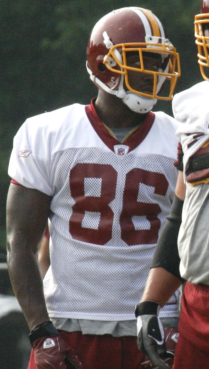 A picture of Washington Redskins TE Fred Davis at training camp